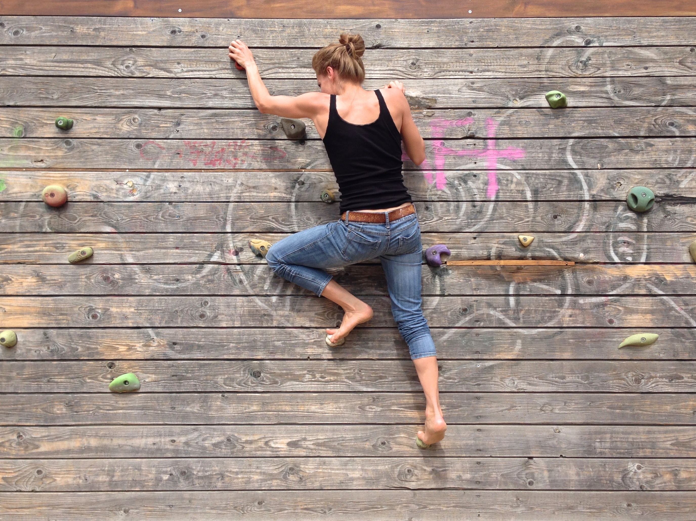 Boulder Dash by Robert Agthe.